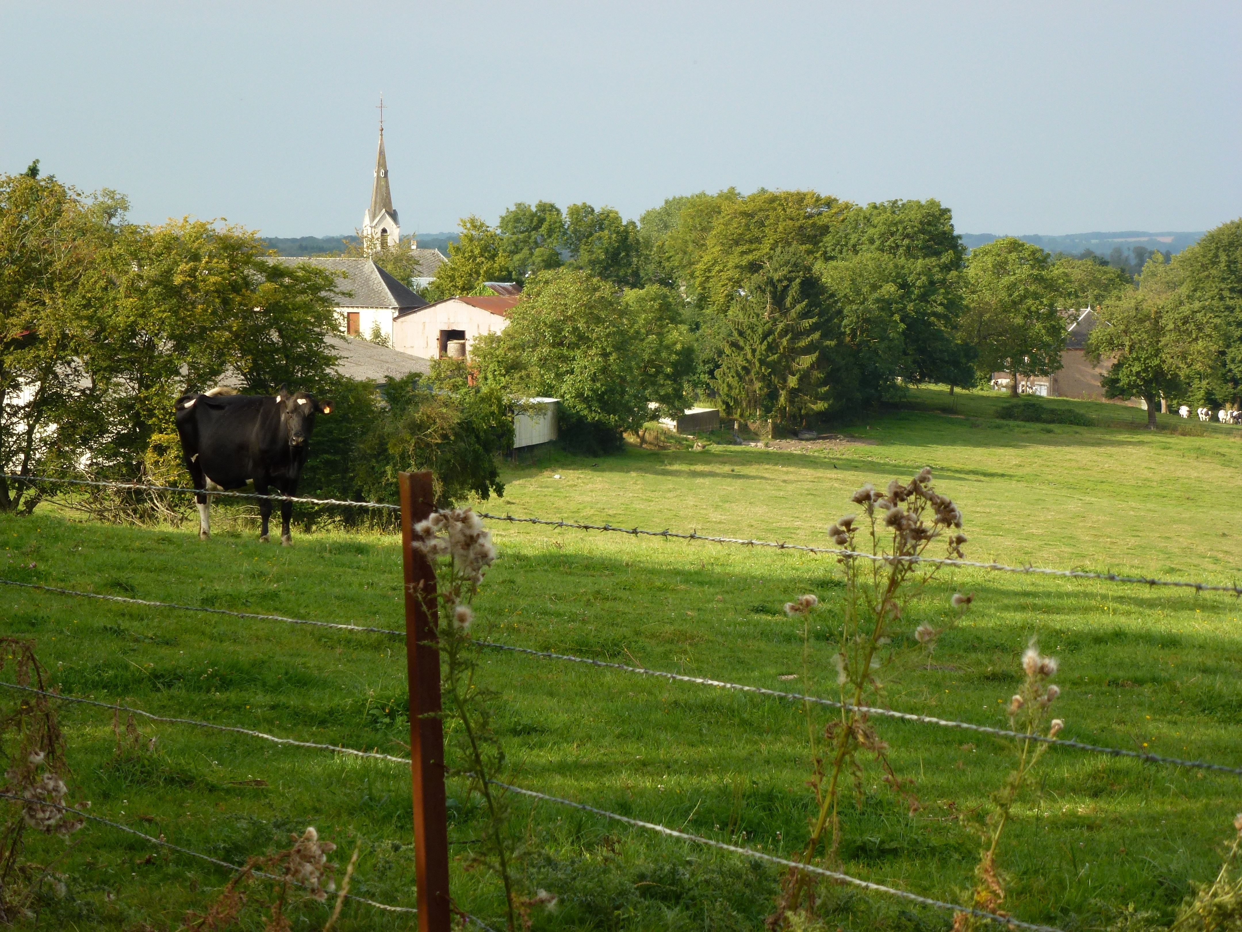 Maranwez (Ardennes) vue du village